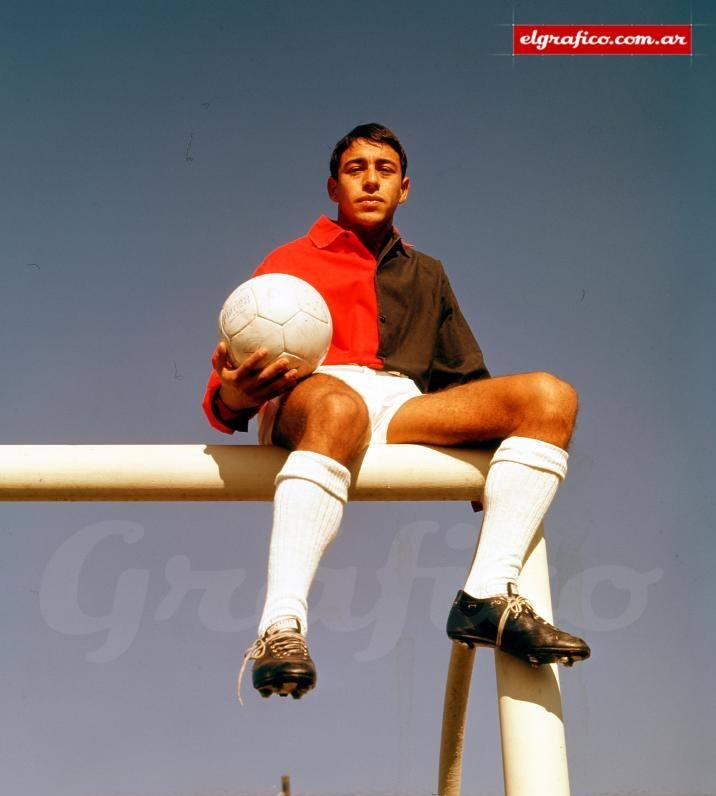 Edgardo Di Meola idol of the Colón of Santa Fe